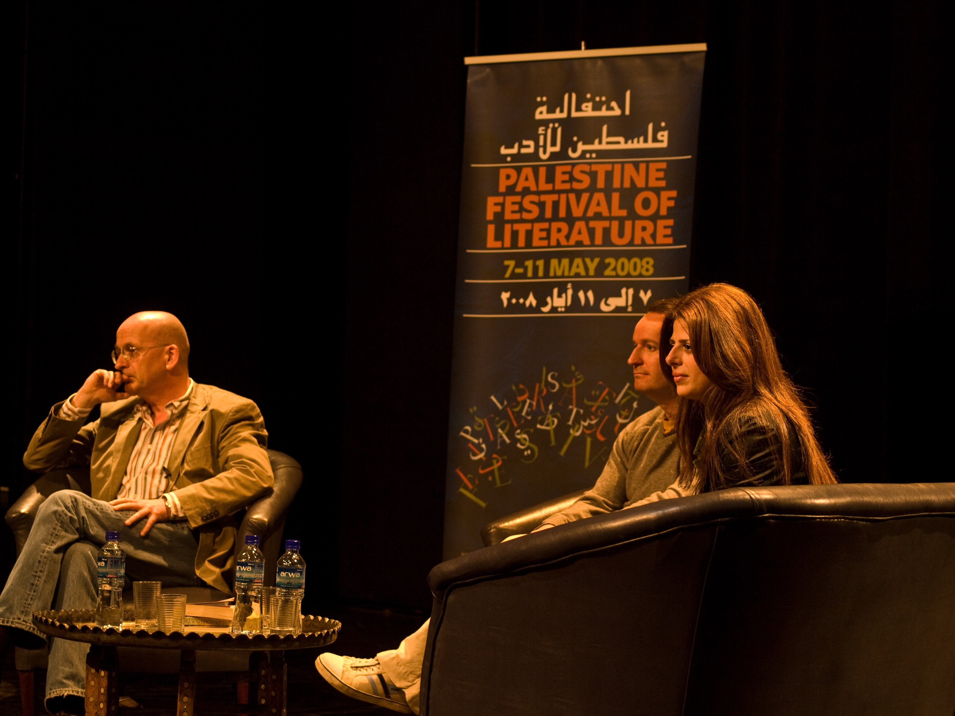 Palestine Festival of Literature, 11 May 2008.